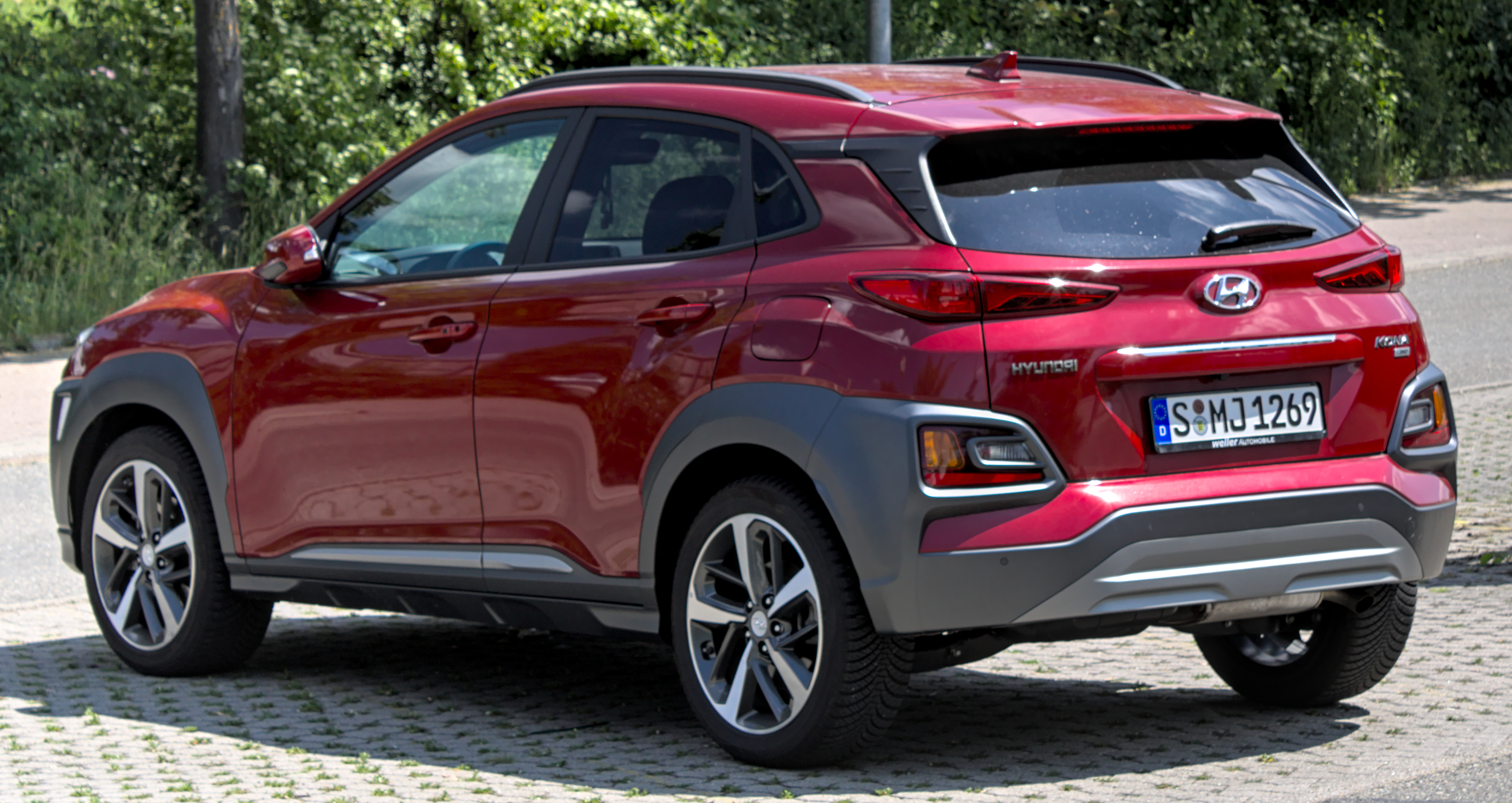 Hyundai_Kona in Böblingen